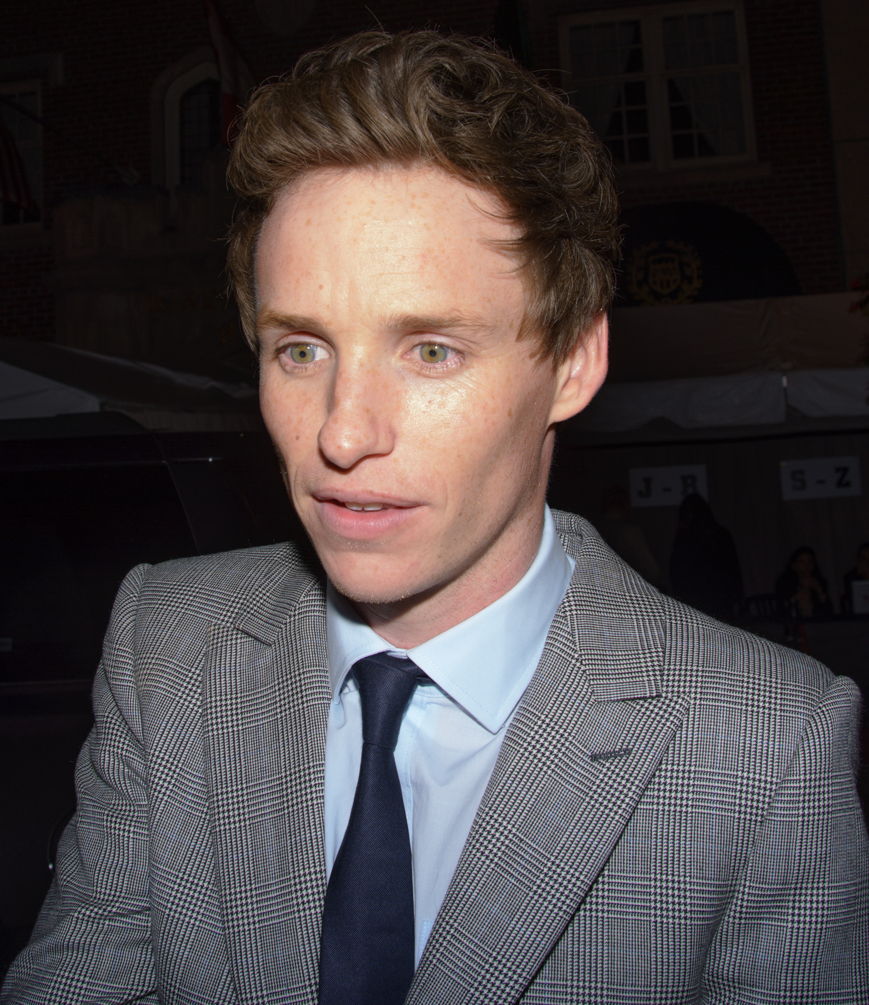 Actor Eddie Redmayne arriving for the Hollywood Foreign Press Association & InStyle's 2014 TIFF Celebration